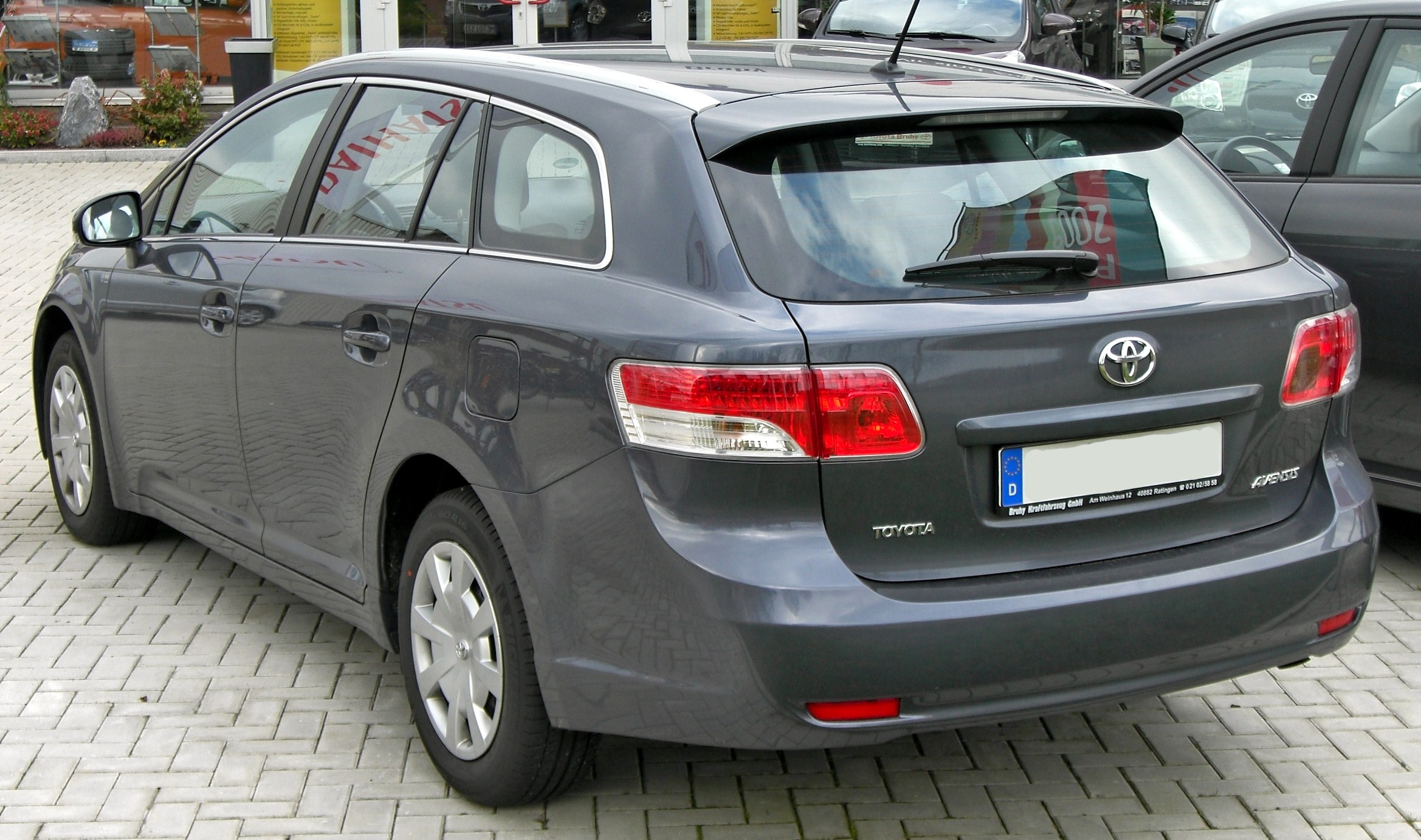 Toyota Avensis Combi